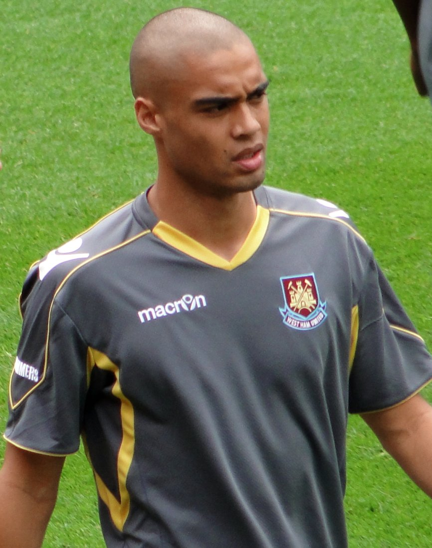 Reid warms up before West Ham's game v Bolton 21/8/2010